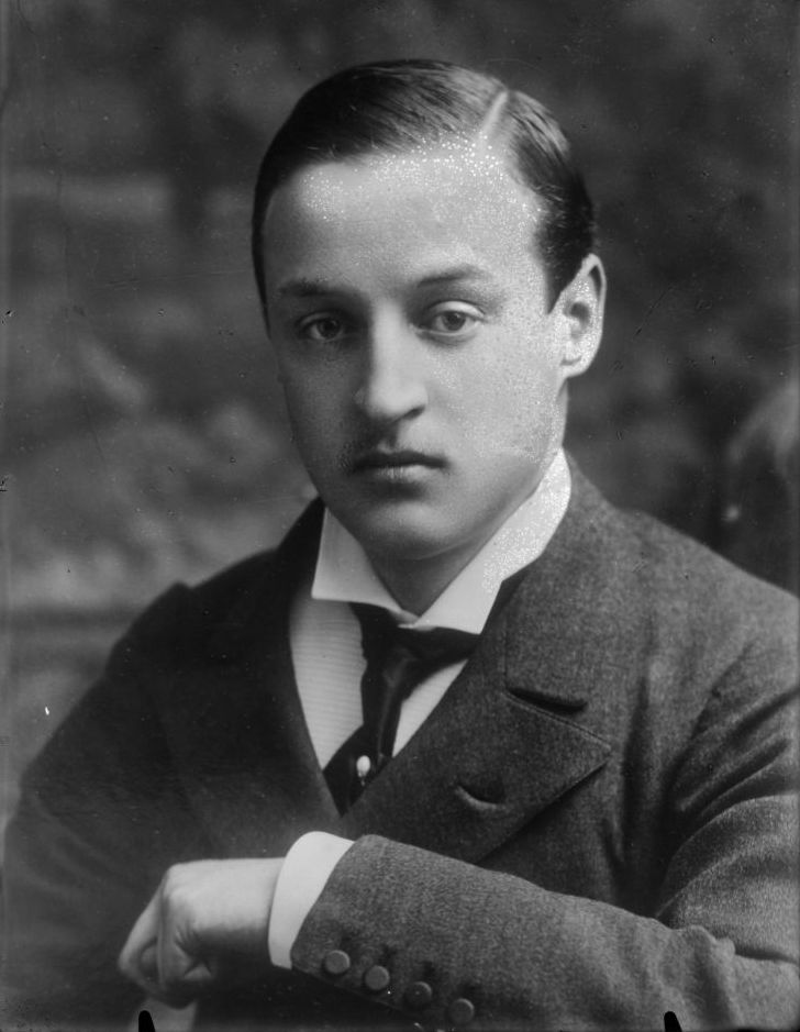 Accession Number: 1974:0056:0533 Maker: William M. Vander Weyde (American 1871–1929) Title: Duke of Marlborough Date: ca. 1900 Medium: negative, gelatin on glass Dimensions: 8.5 x 6.5 inches George Eastman House Collection